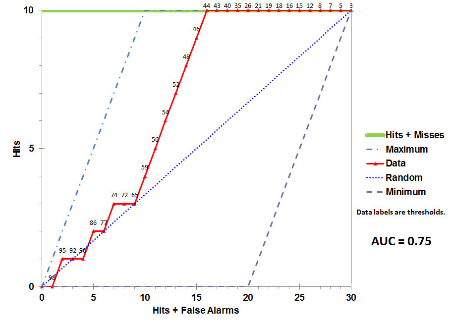 Figure 2: TOC Curve